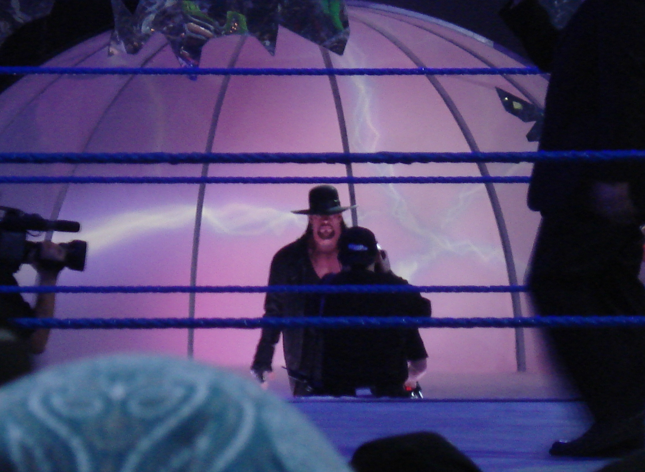 The Undertaker making his trademark entrance. Peoria Civic Center, Peoria, Illinois, . Taken by me.